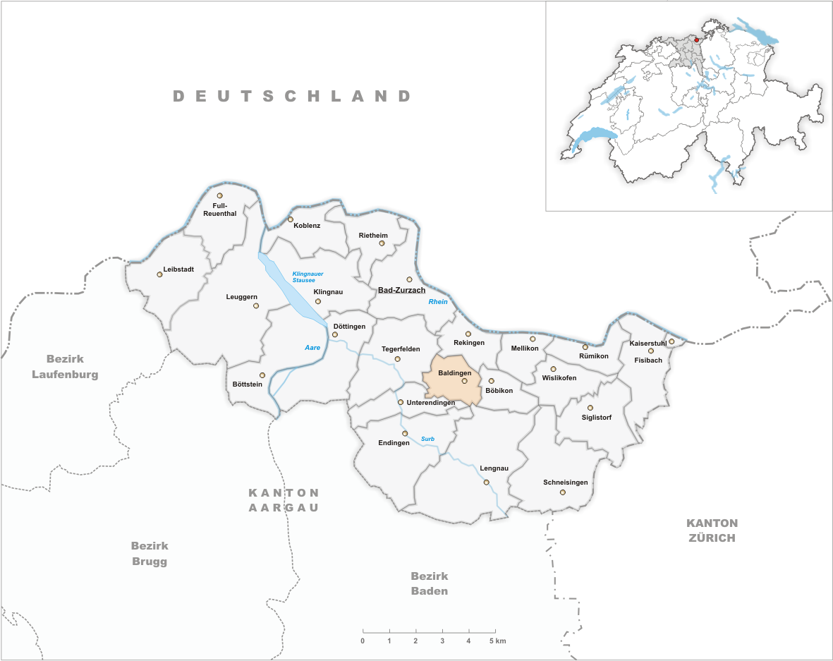 Municipality Baldingen